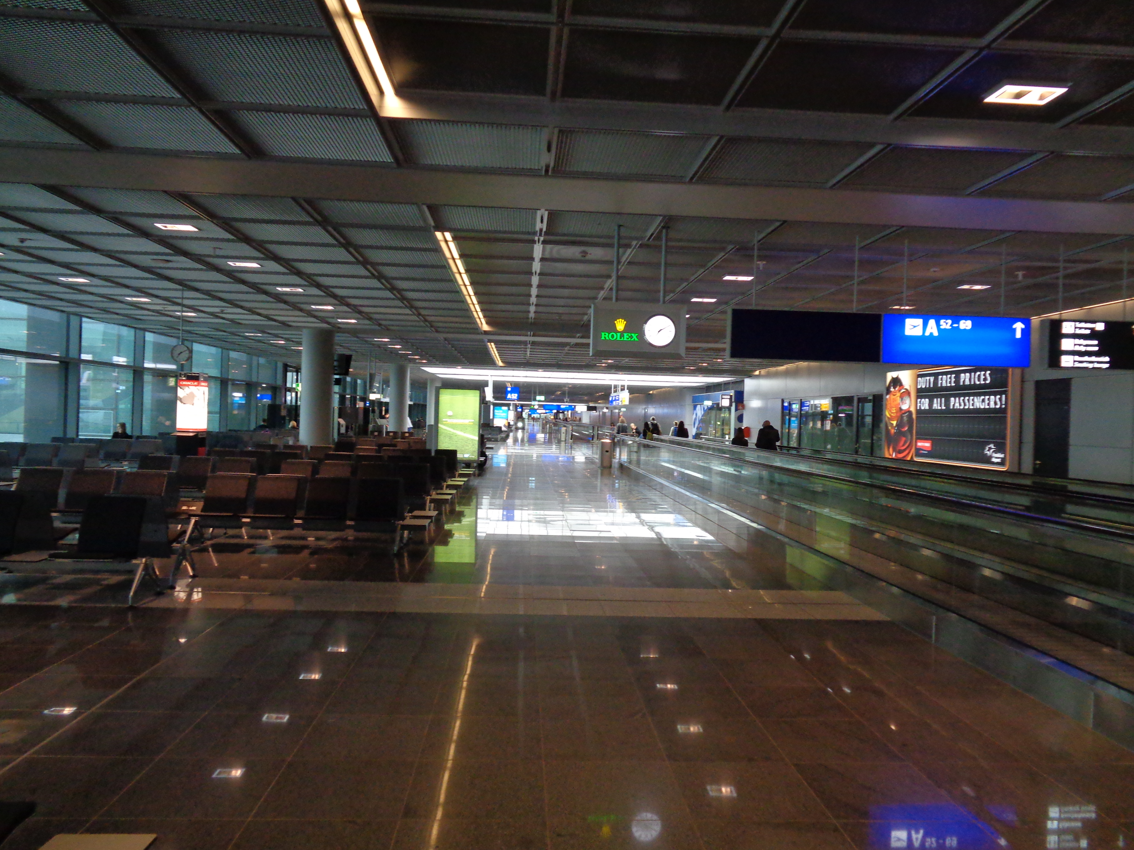 Schengen level of Frankfurt Airport Terminal 1 Pier A-Plus.